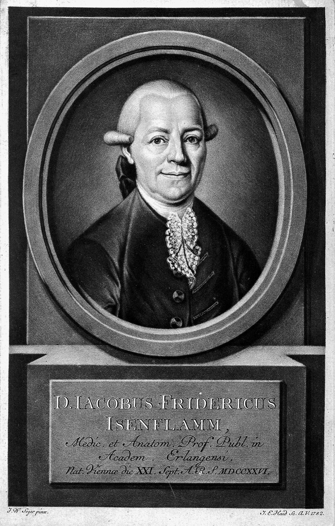 Jacob Friedrich Isenflamm. Mezzotint by J. E. Haid, 1782, after J. W. Seger. Iconographic Collections Keywords: Jacob Friedrich Isenflamm; D.E. Haid; F.W. Seger